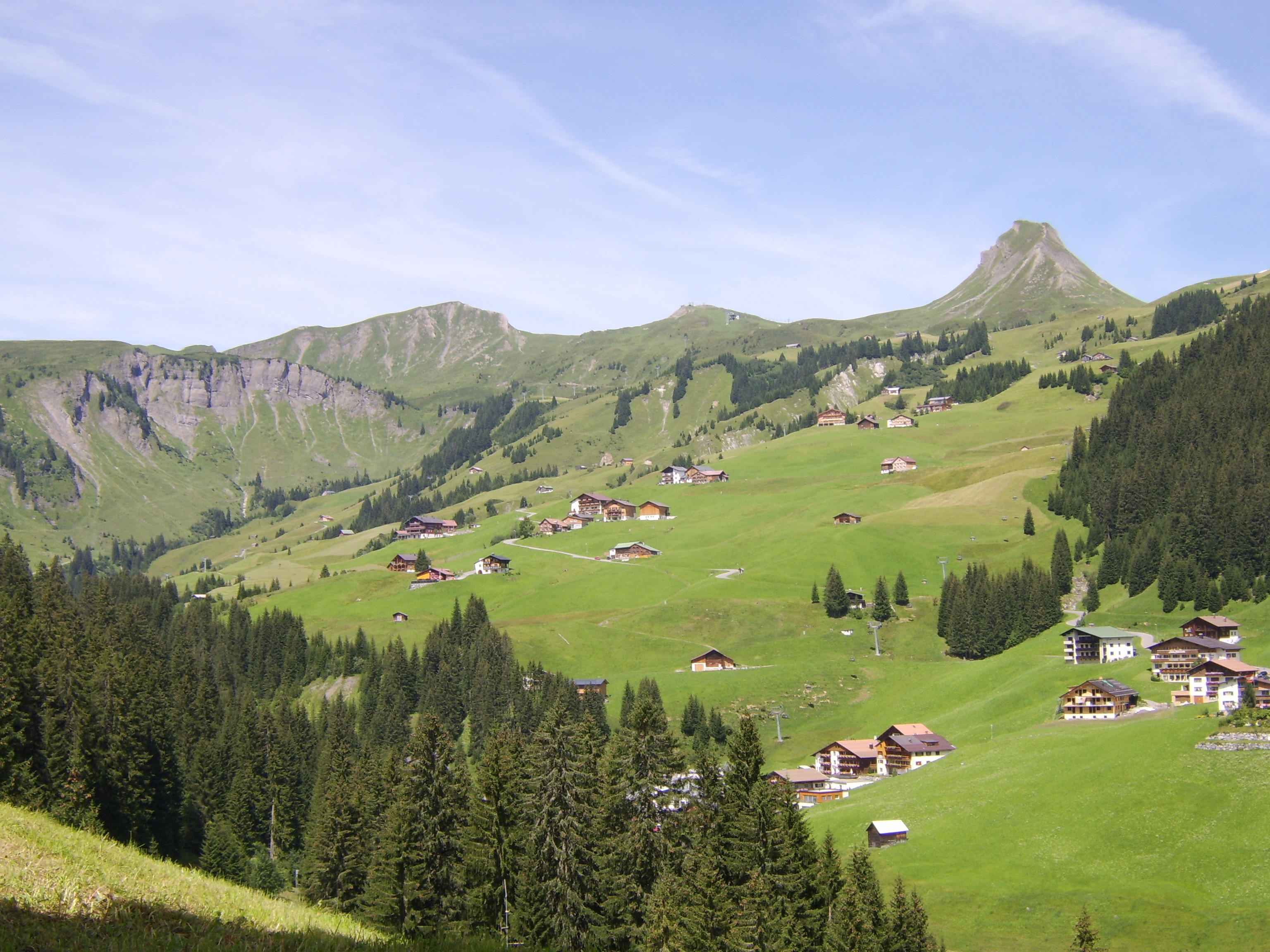 Damüls vorarlberg Austria